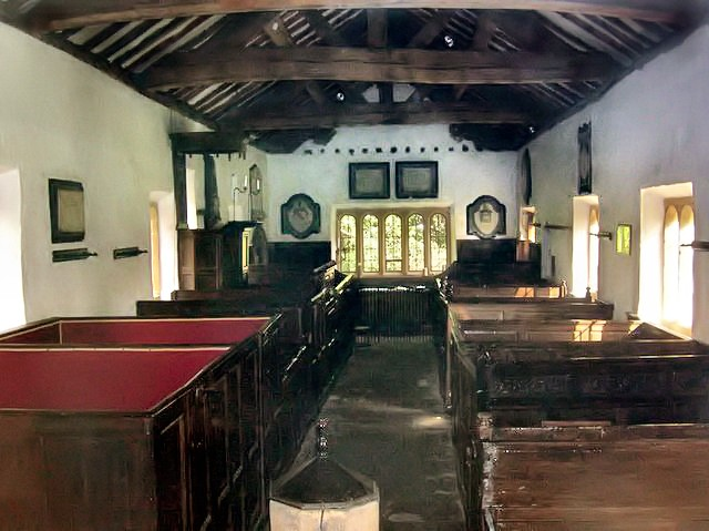 Interior of the Puritan chapel at Bramhope, West Yorkshire, photographed through the west window